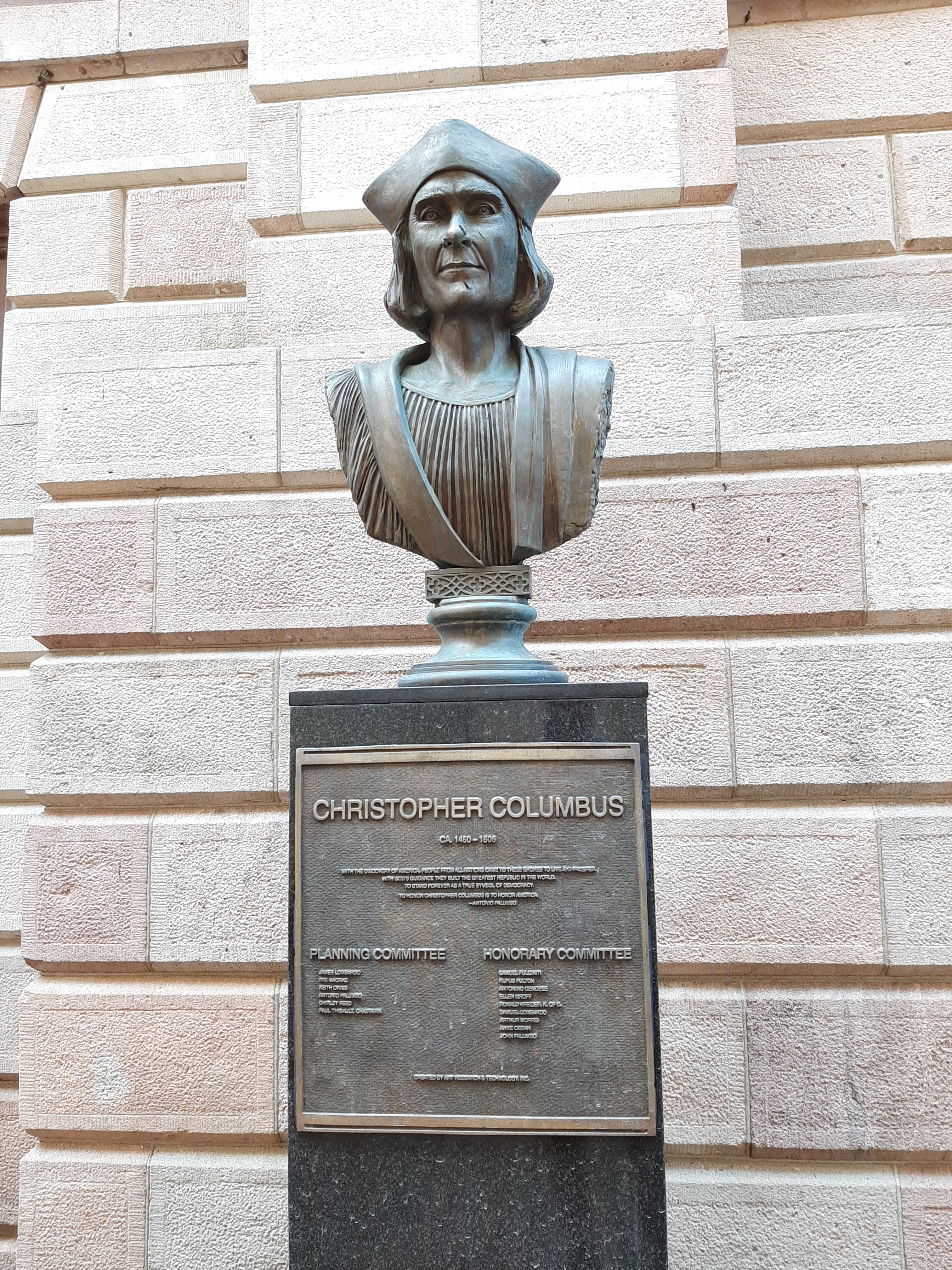 Christopher Columbus bust near the courthouse in Lancaster Pennsylvania